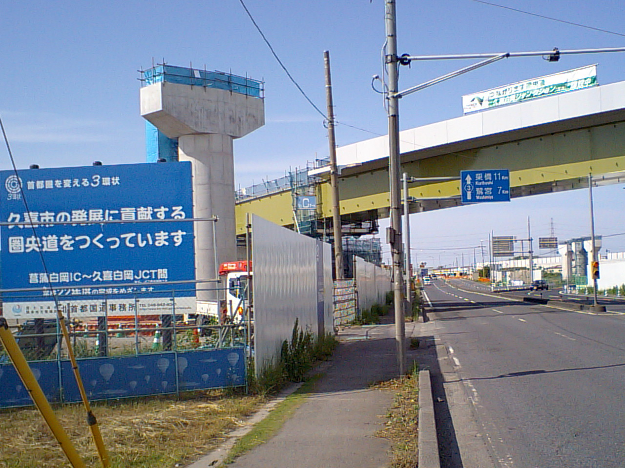 Construction of Kuki Shiraoka Junction on the Ken-O Expressway